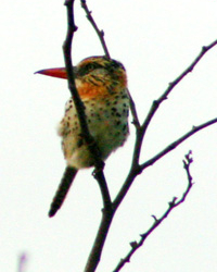 Spot-backed Puffbird in Paraíba, Brazil.